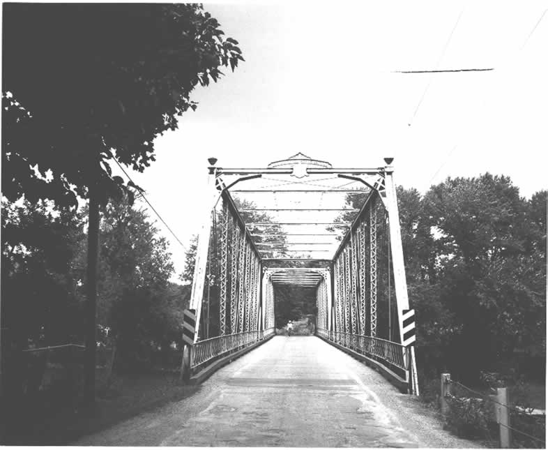 Bridge in French Creek Township, which carries Legislative Route 43074 over French Creek in French Creek Township, Mercer County, Pennsylvania, United States. Built in 1898, the bridge is listed on the National Register of Historic Places.